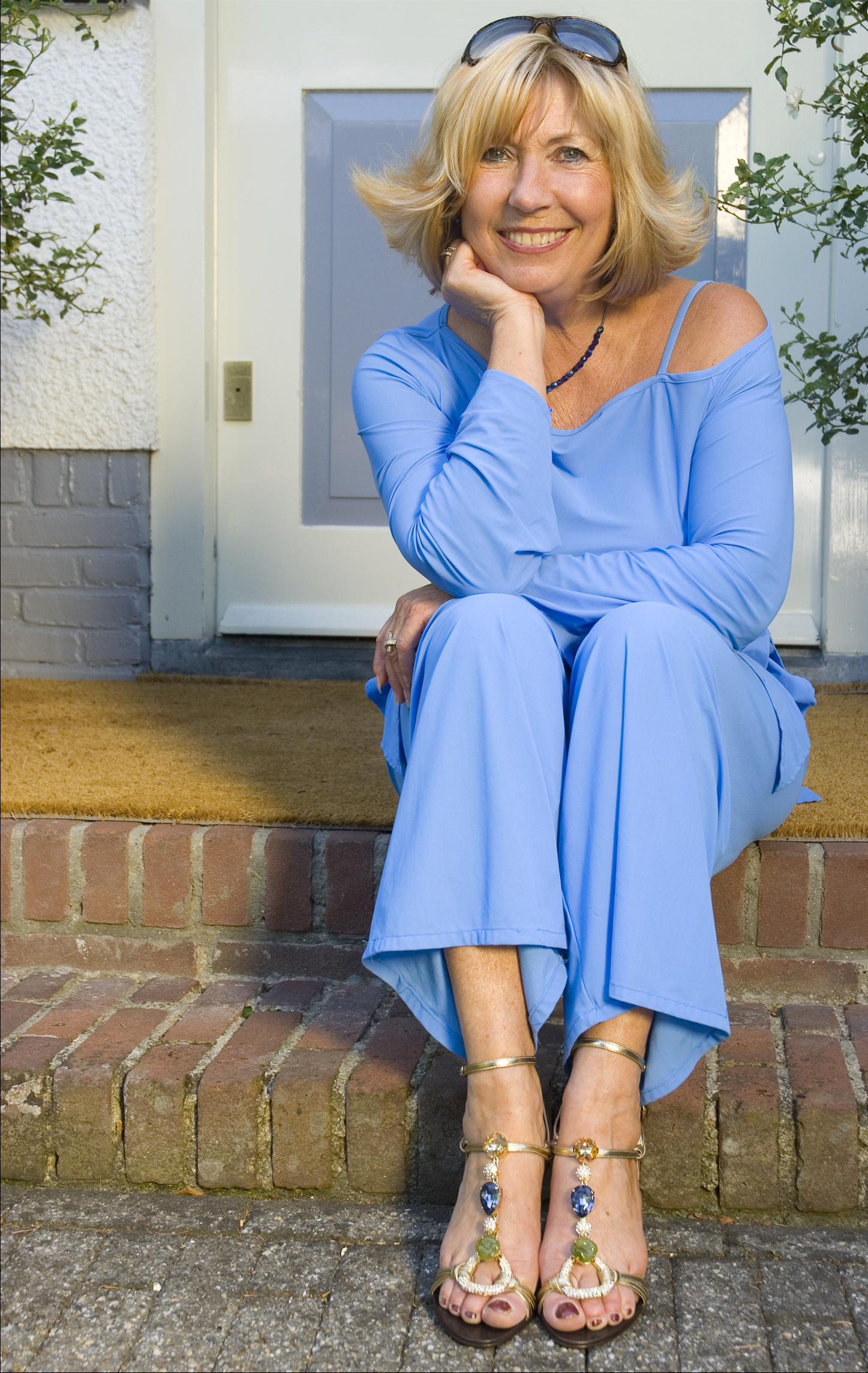 Willeke Alberti, Dutch singer and actress